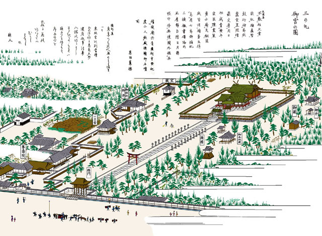 Tōshō-gū shrine south of Nagoya Castle.